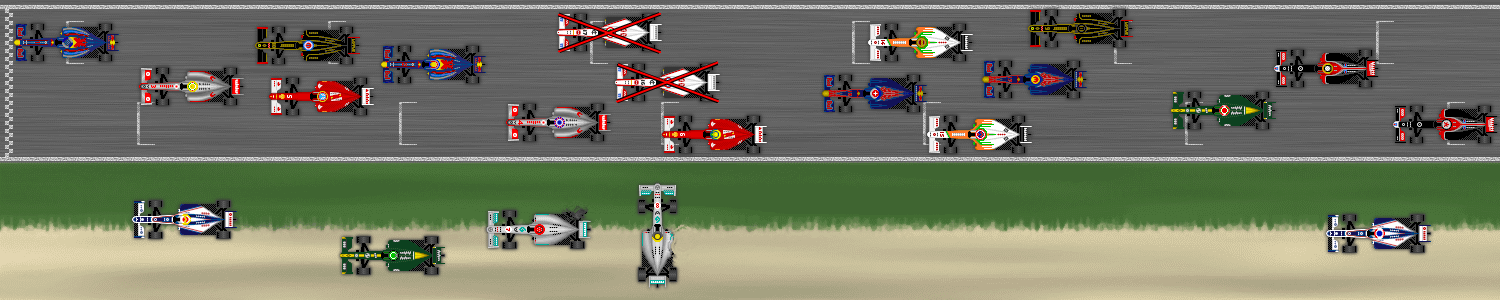 race result of 2011 Australian Grand Prix in Melbourne